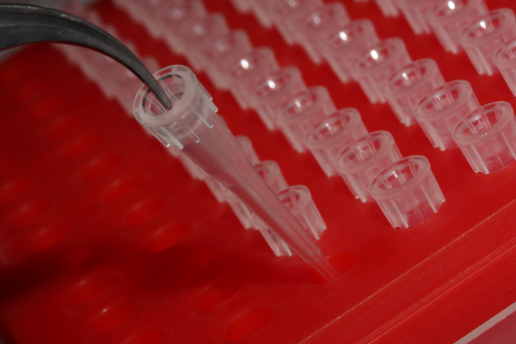 pipette tip